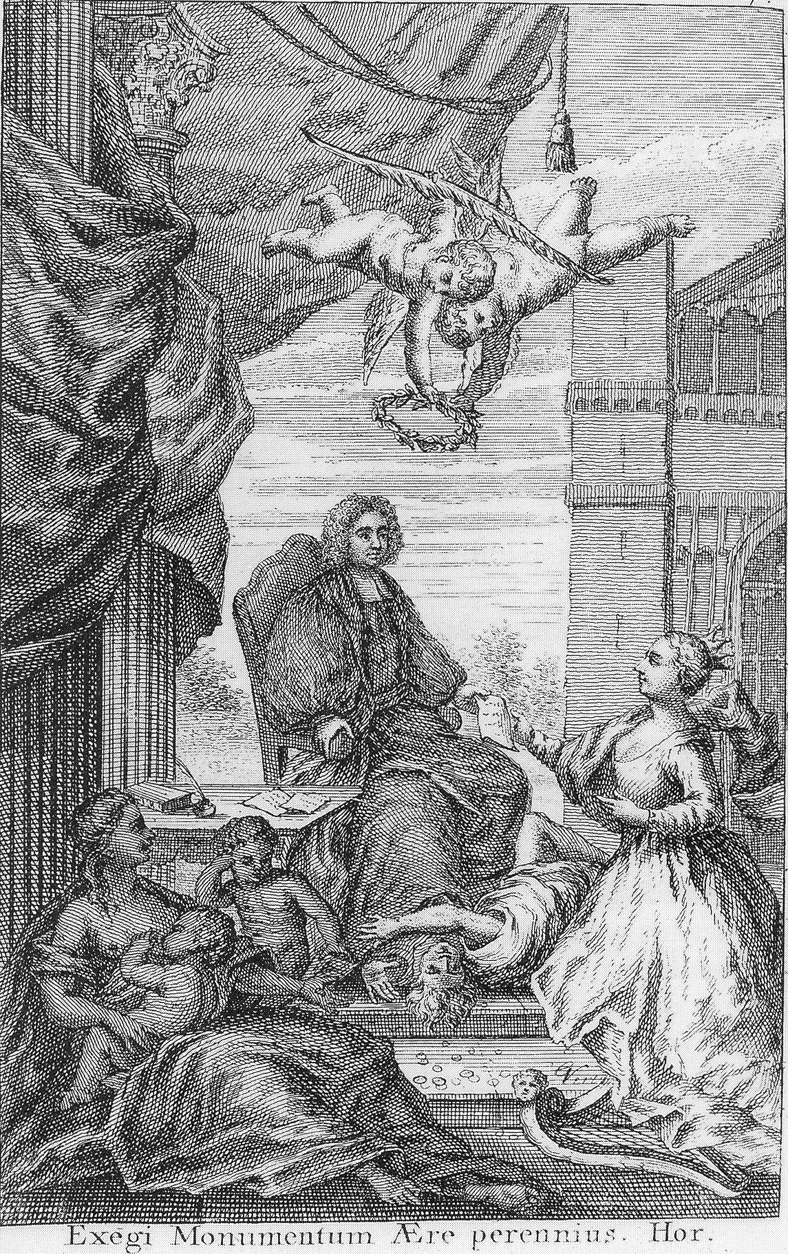 Title page to Swift, Jonathan. The works of J.S., D.D., D.S.P.D : In four volumes : Containing, 1. The author's miscellanies in prose. II. His poetical writings. III. The travels of Captain Lemuel Gulliver. IV. His papers relating to Ireland ... among which are, The Drapier's letters to the people of Ireland against receiving Wood's half-pence: also, two original Drapier's letters, never before published. Dublin: George Faulkner, 1735. OCLC 220597967. The image depicts Swift receiving the thanks of Ireland and the dashing of Wood's half-pence. The Latin inscription, from Horace, says, "I have made a monument more lasting than brass."